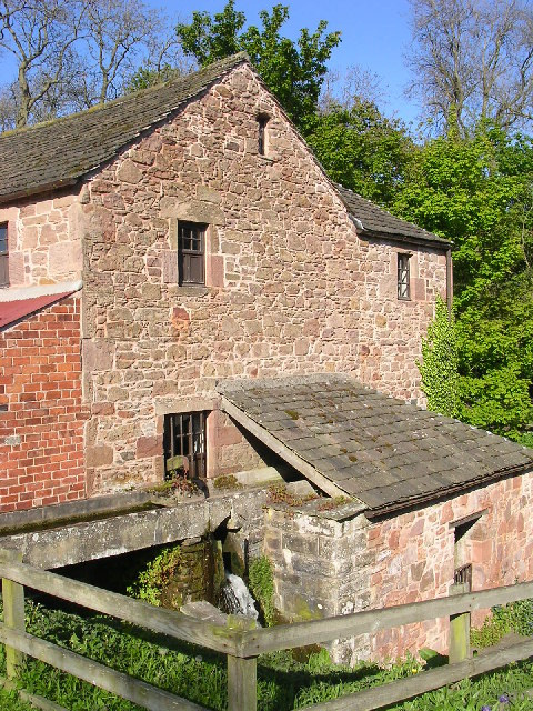 Barry Mill, a water-powered grain mill at Barry, Angus